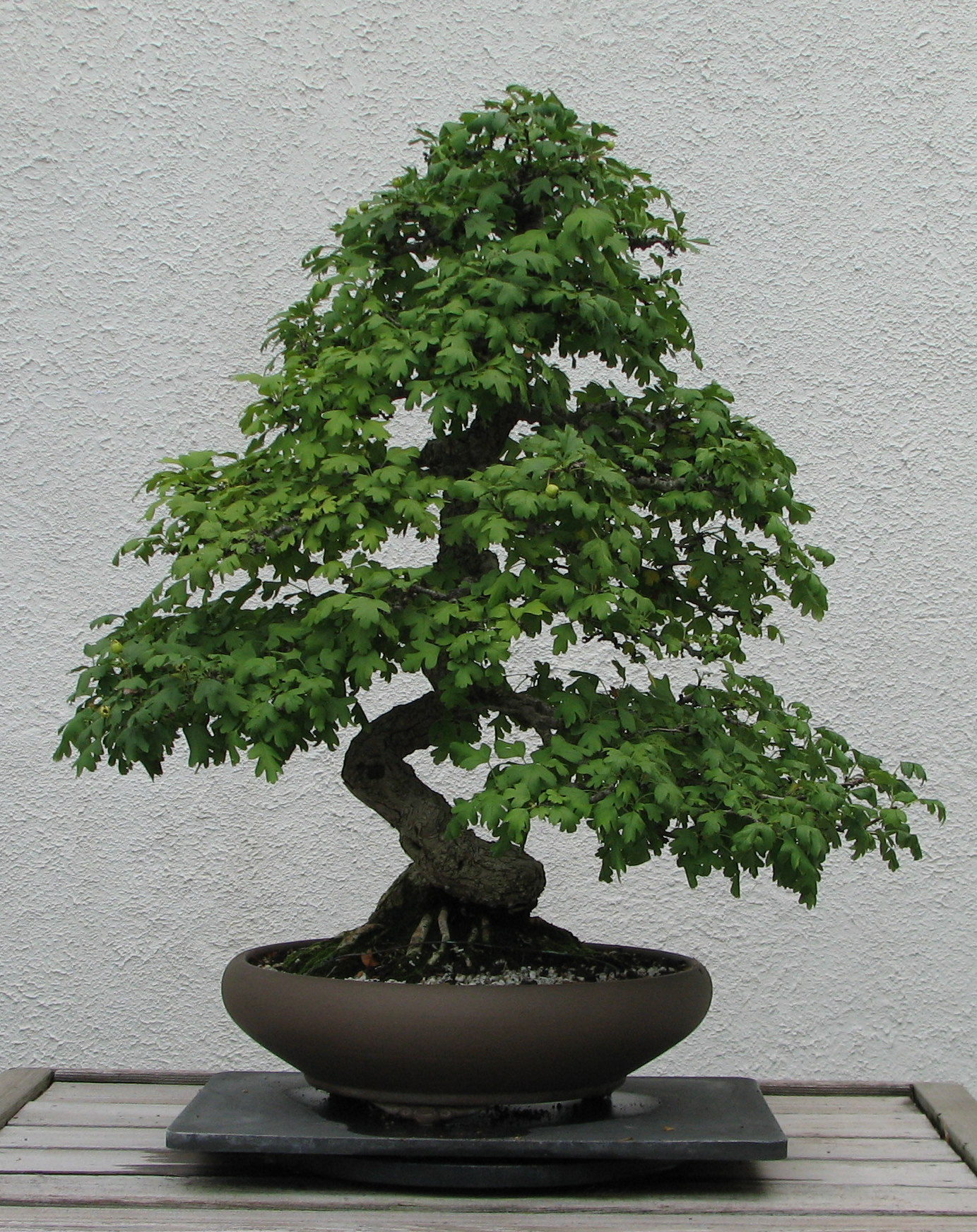 An English hawthorn (Crataegus sp.) bonsai on display at the National Bonsai & Penjing Museum at the United States National Arboretum. According to the tree's display placard, it has been in training since 1953. It was donated by Bertram F. Breunner.